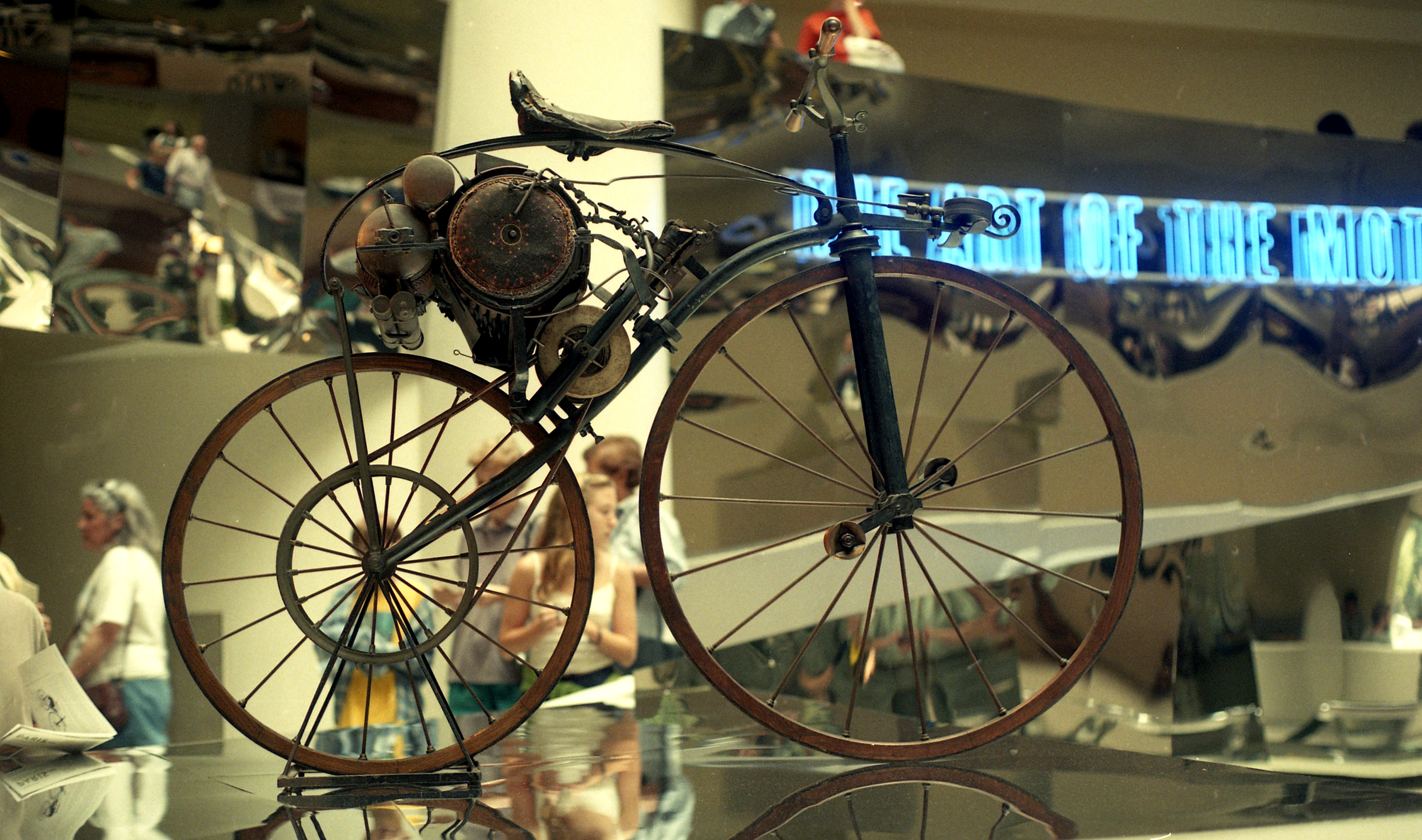 Michaux-Perreaux steam velocipède 1869 at The Art of the Motorcycle, New York 1999.